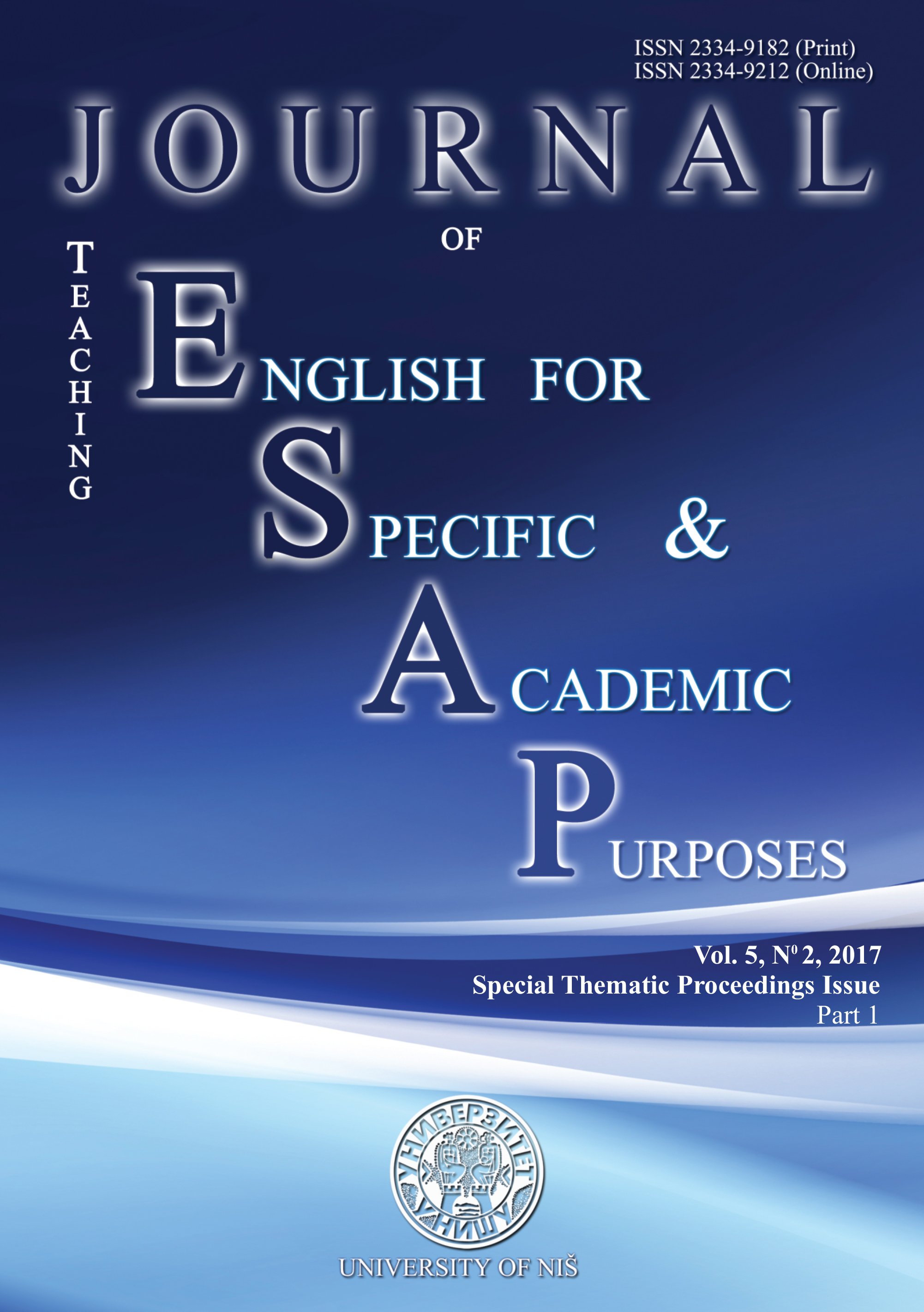 Journal of Teaching English for Specific and Academic Purposes, 2017, University of Nis, Serbia